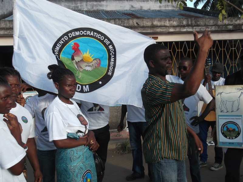 Fernando Amélia Nhaca, candidate for the MDM in Inhambane, Mozambique